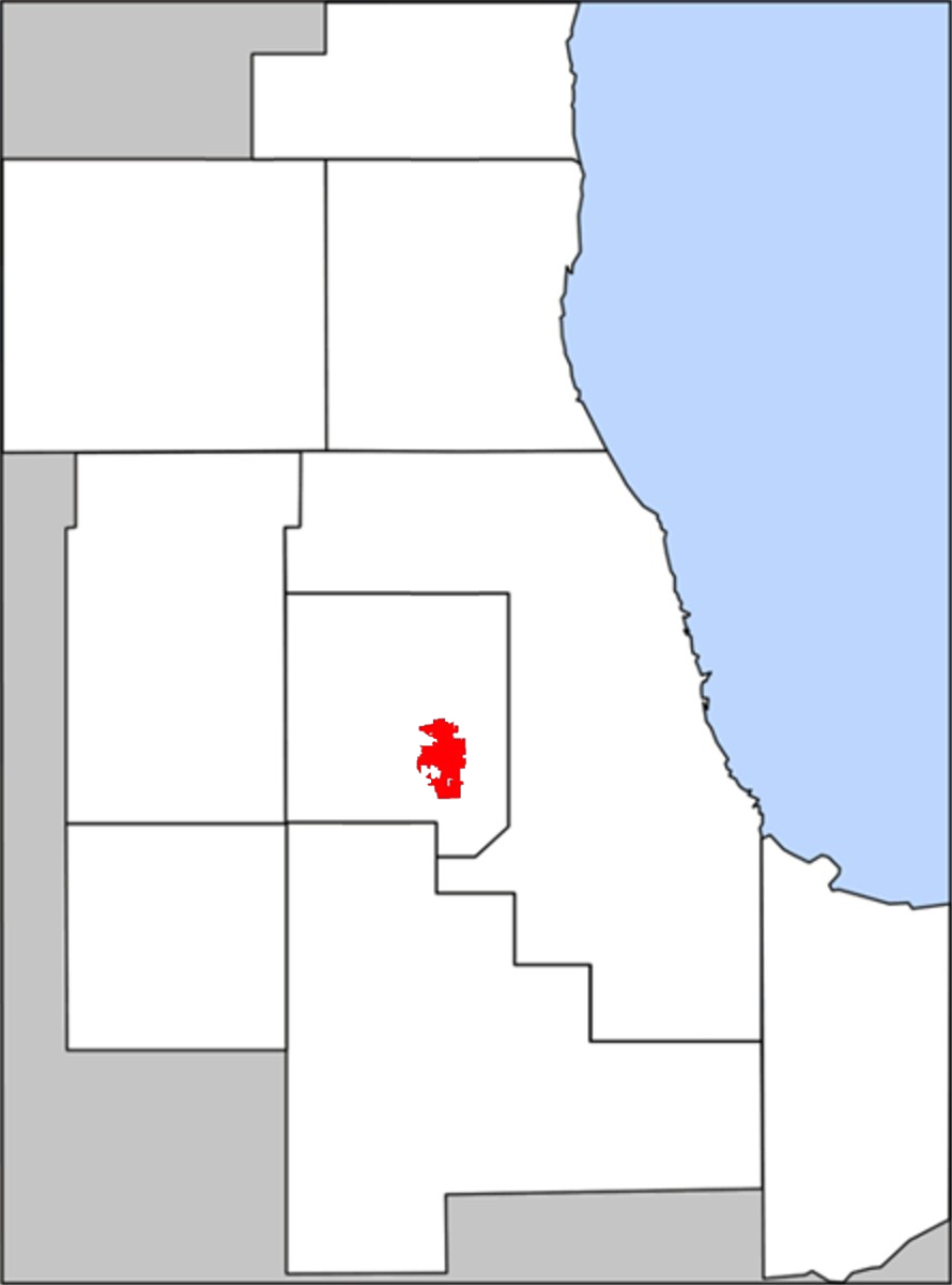 Locator map of Downers Grove, Illinois.